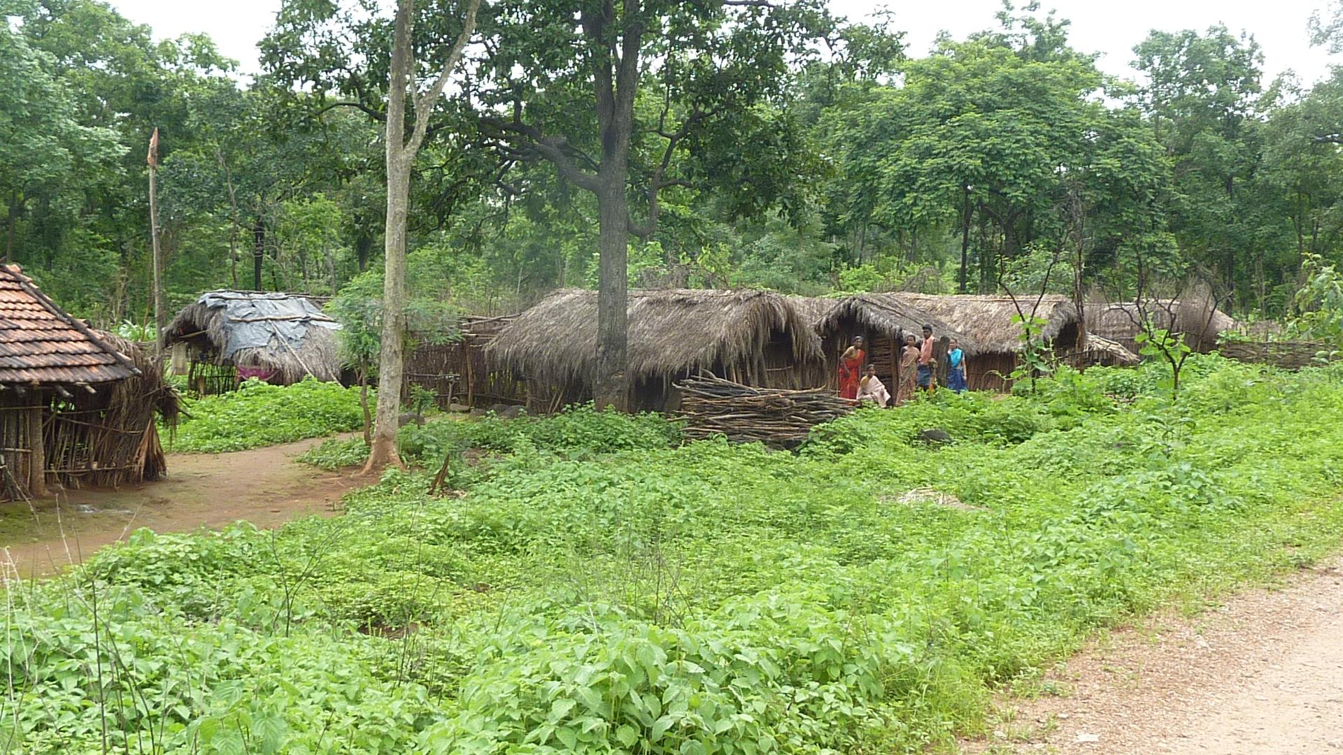 A typical settlement of Internally Displaced People (IDPs) near Chintoor Forests of Khammam district, Andhra Pradesh